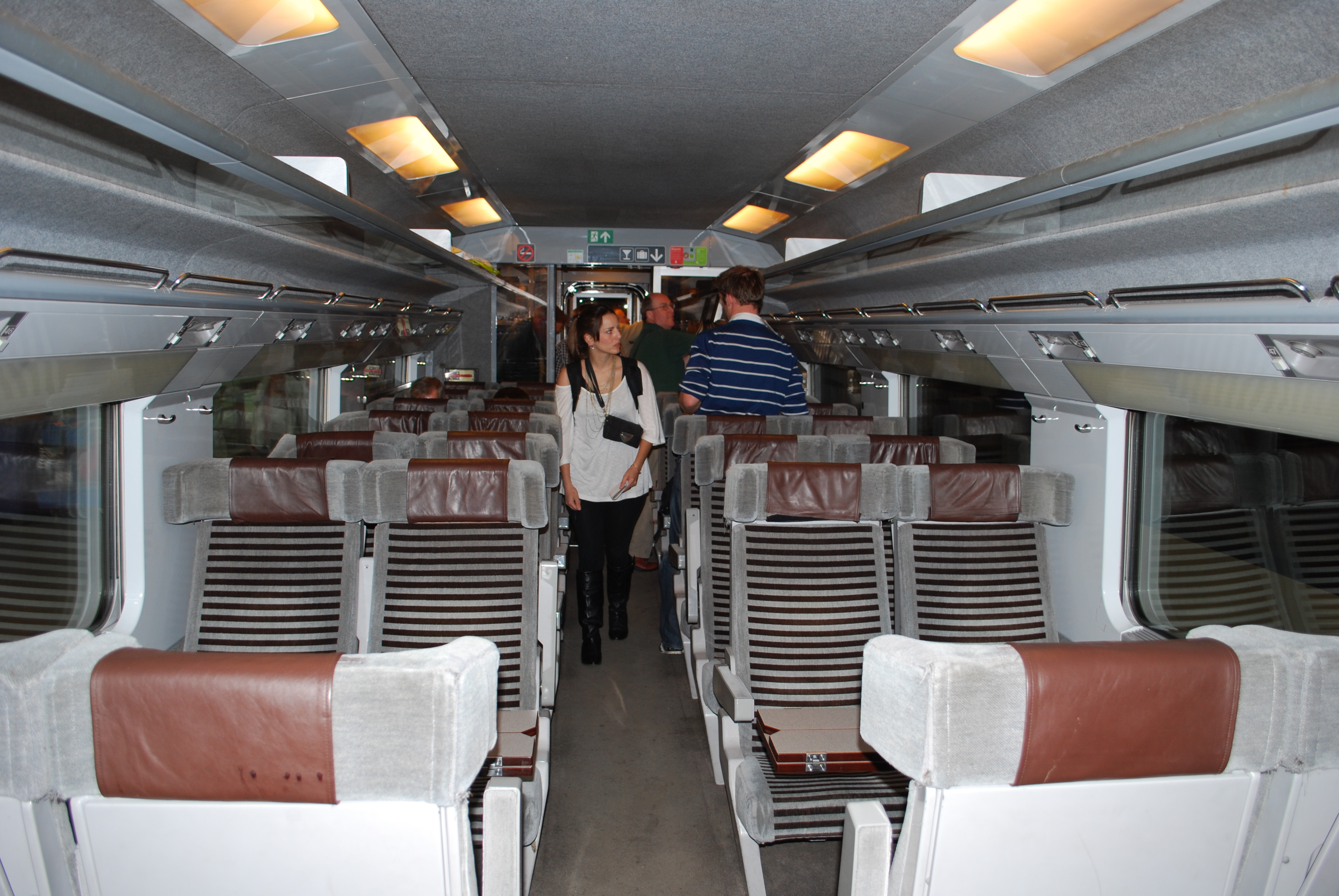 Second class saloon of a GEC-Alstom/Brush/De Dietrich 3,000V dc/25kV ac/1,500 v dc overhead Class 373/0 "Eurostar Three Capitals" 10-car half-set emu at St.Pancras, 1 June 2011.